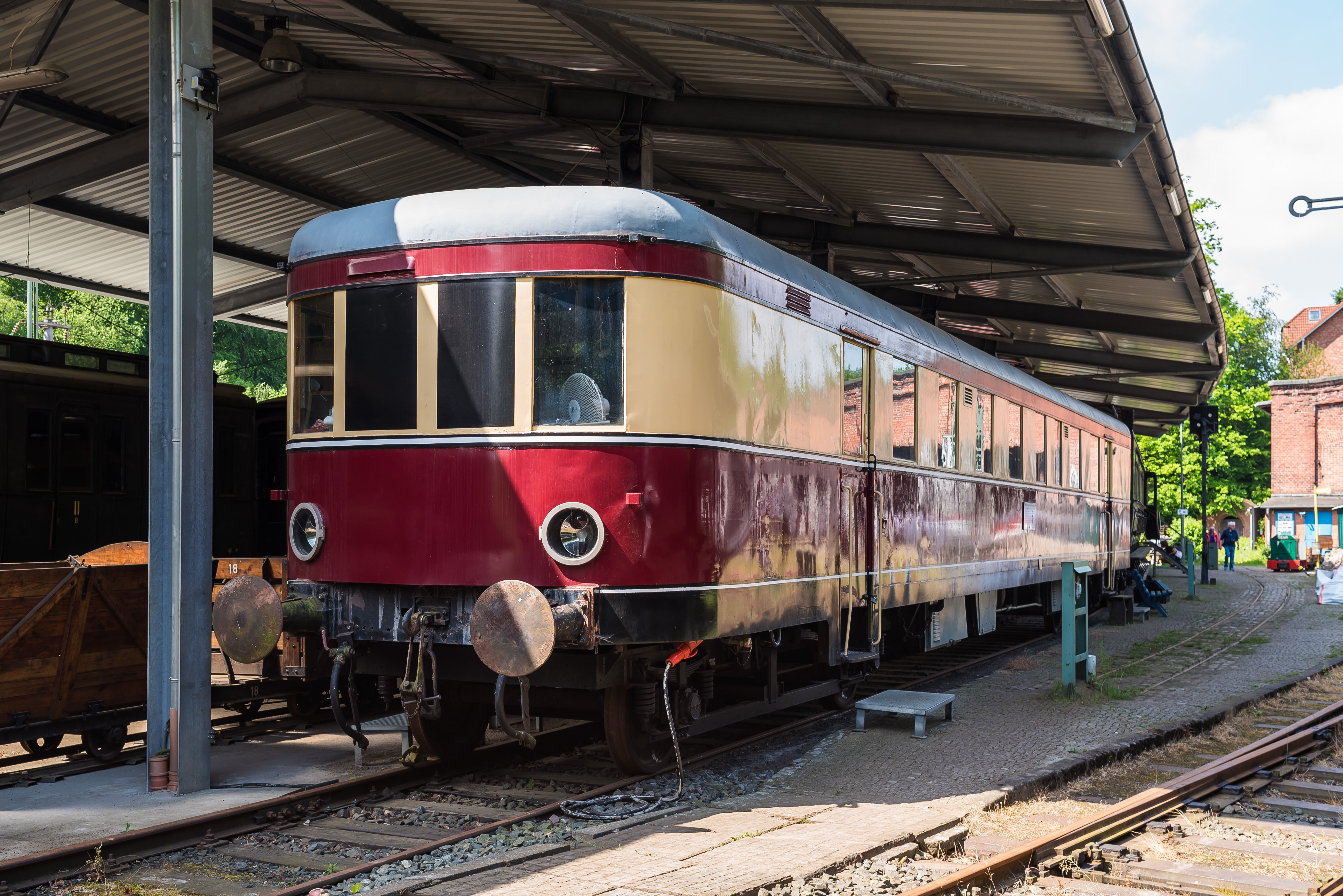 Diesel unit 137 137 at the railroad museum at Aumühle, Schleswig-Holstein, Germany. It was largely hollowed out in the 1950s to house a mock signal box for training purposes which is still the case.